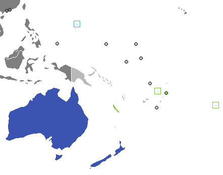 Best finishes of teams in the FIBA Oceania Championships. First place Second place Fourth place and better Eighth place and better Worse than eighth place FIBA Oceania member, no appearance yet Not a FIBA Oceania member